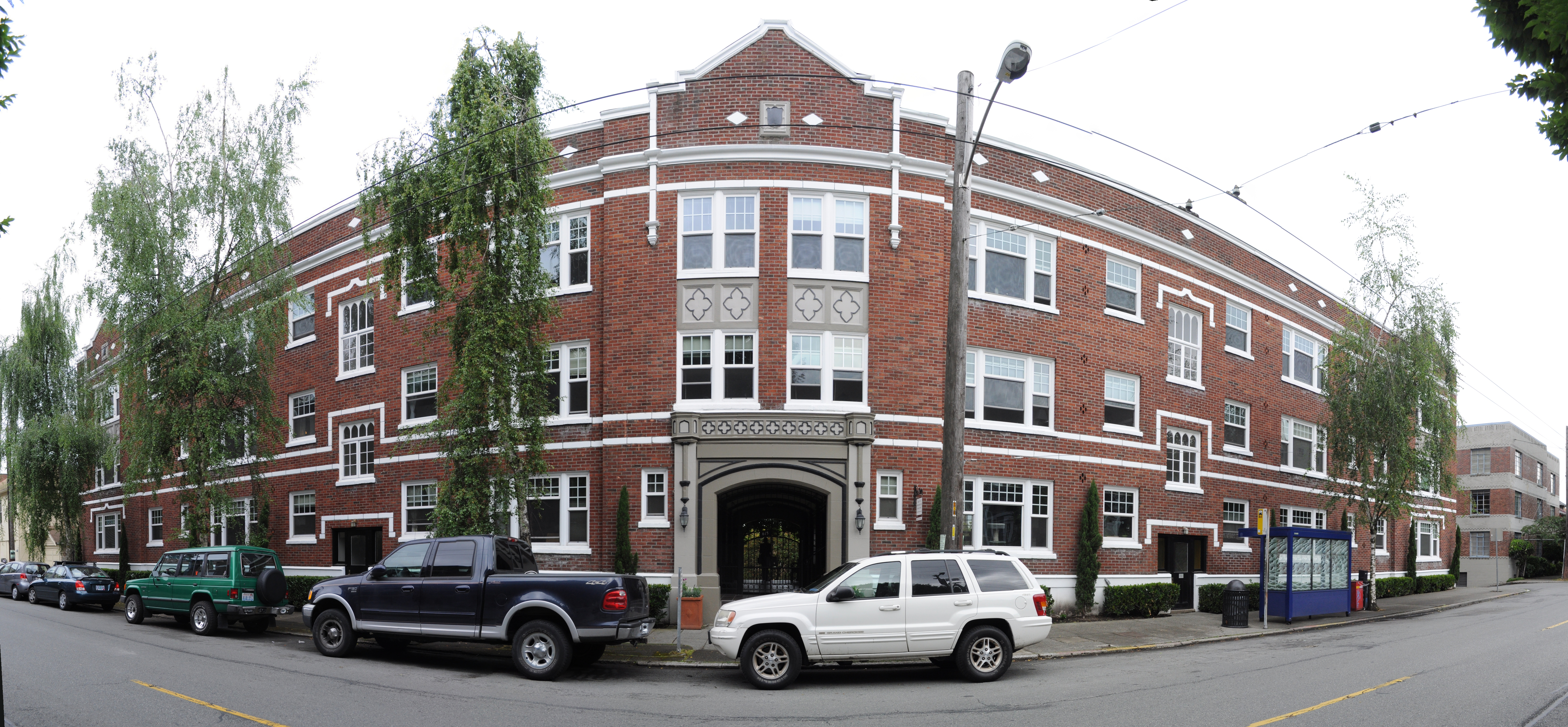 Roy Vue Apartments, corner of Bellevue Ave E & E Roy Street on Capitol Hill, Seattle, Washington, USA. This image was created with Hugin